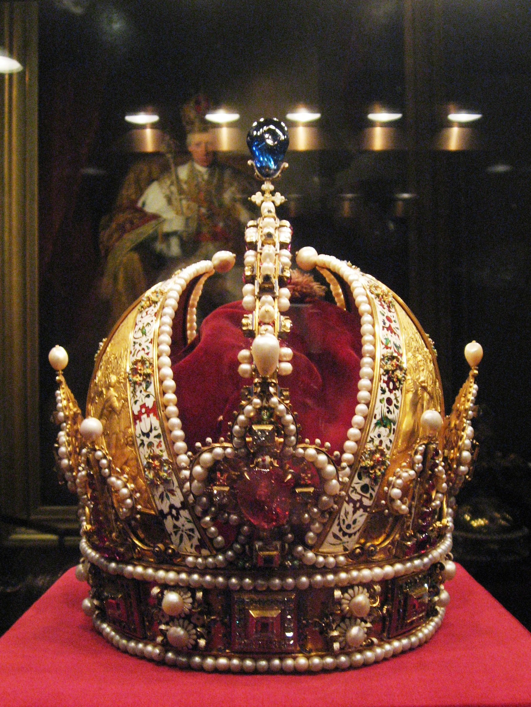 The Crown of Rudolf II, later Crown of the Austrian Empire Jan Vermeyen Prague, 1602 Gold, partially enamelled, diamonds, rubies, spinel rubies, sapphire, pearls, velvet H 28.3 cm, circlet 22.4 cm in diameter (with pearls), largest span (over the fleurs-de-lis on the brow and neck) 27.8 cm SK Inv. No. XIa 1